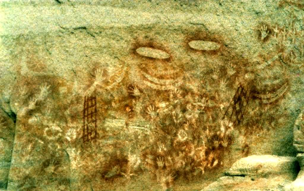 Stencil art showing unique clan markers and dreamtime stories symbolising attempts to catch the deceased's spirit. Photo taken September 1985.